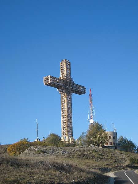 The Millennium Cross on the top Krstovar of Mount Vodno near Skopje, Macedonia.